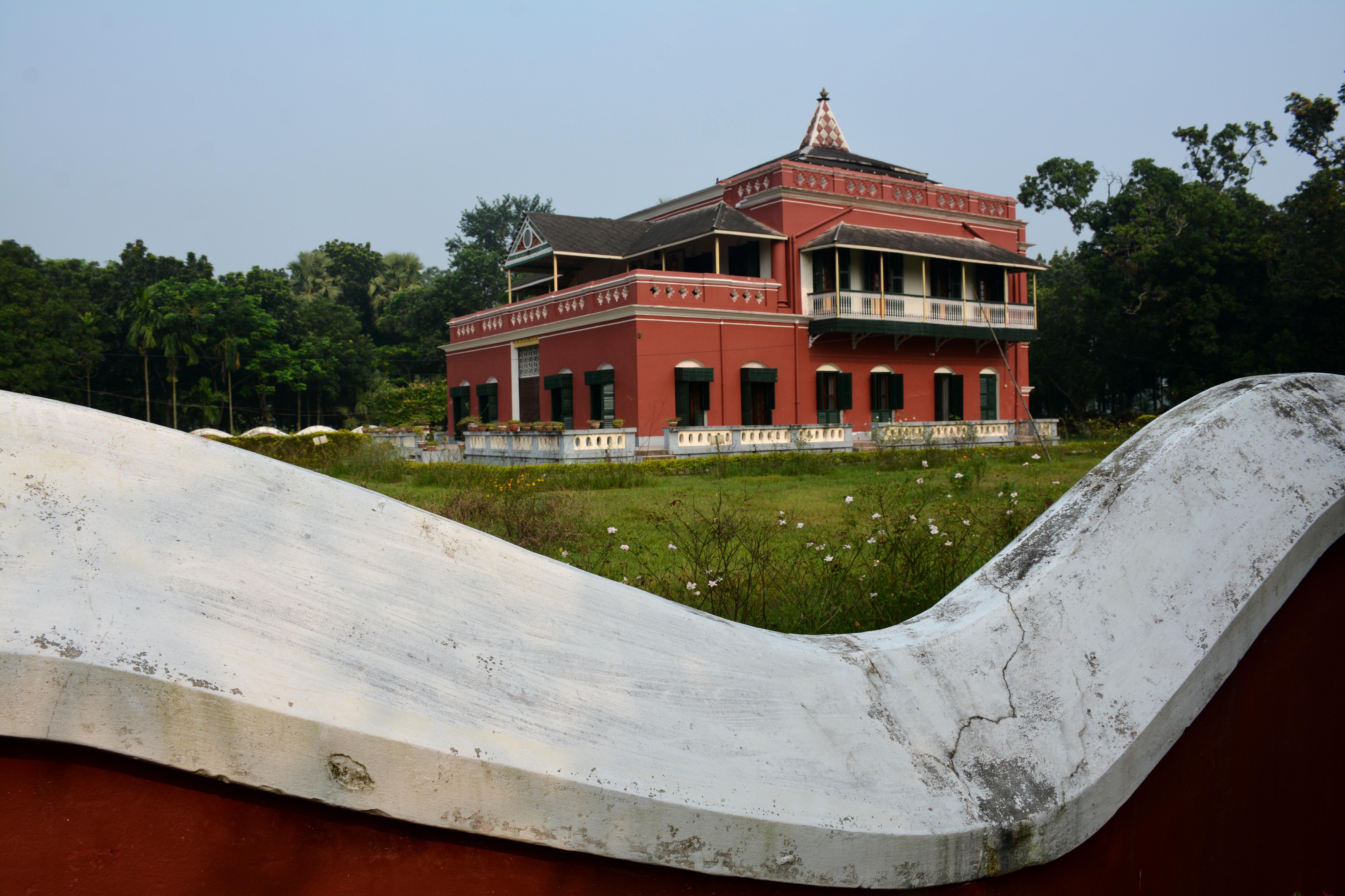 Shilaidaha Kuthibadi is a place in Kumarkhali Upazila of Kushtia District in Bangladesh. Rabindranath Tagore lived a part of life here and created some of his memorable poems while living here.